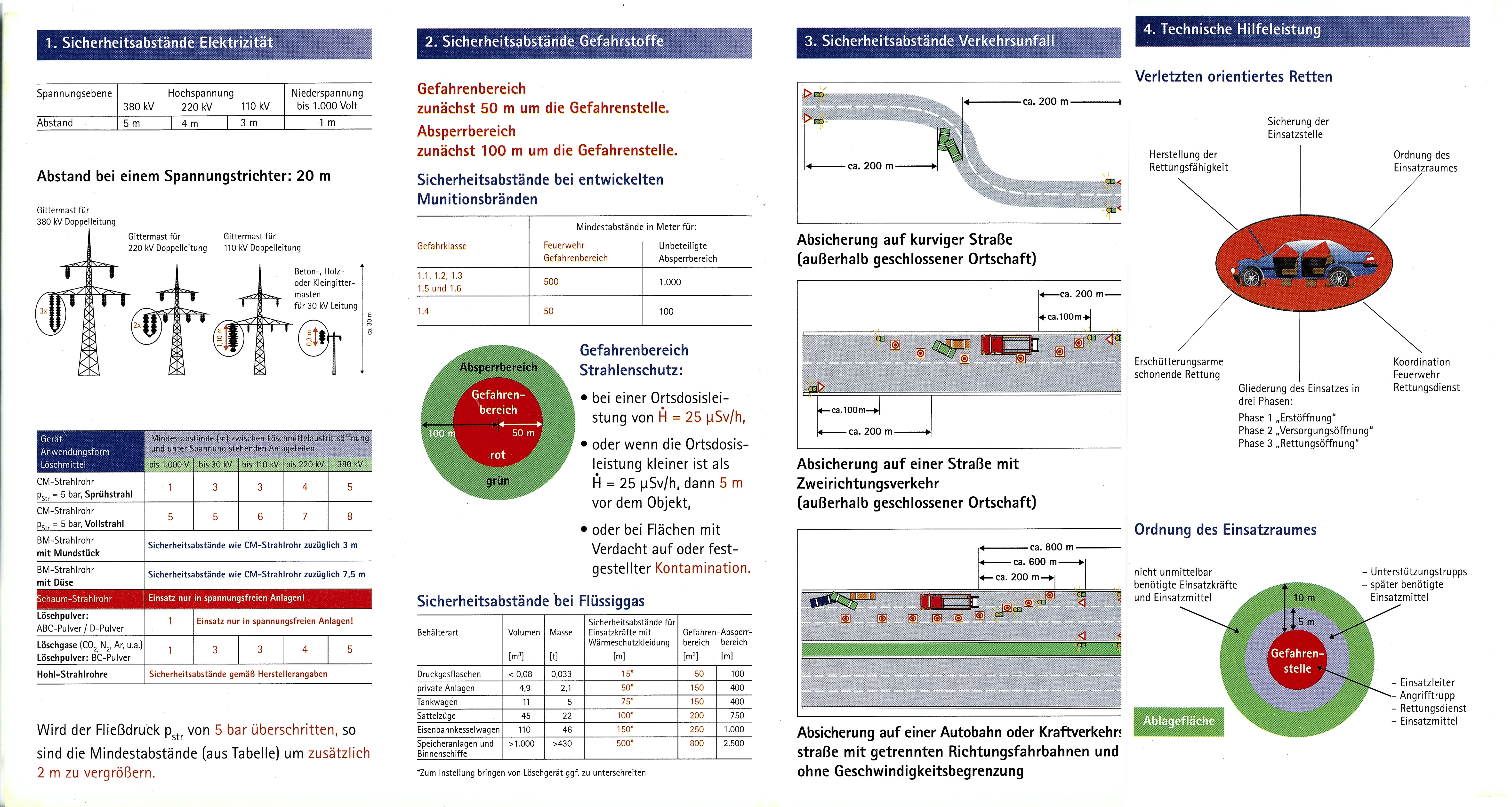 Sofortmassnahmen am Unfallort